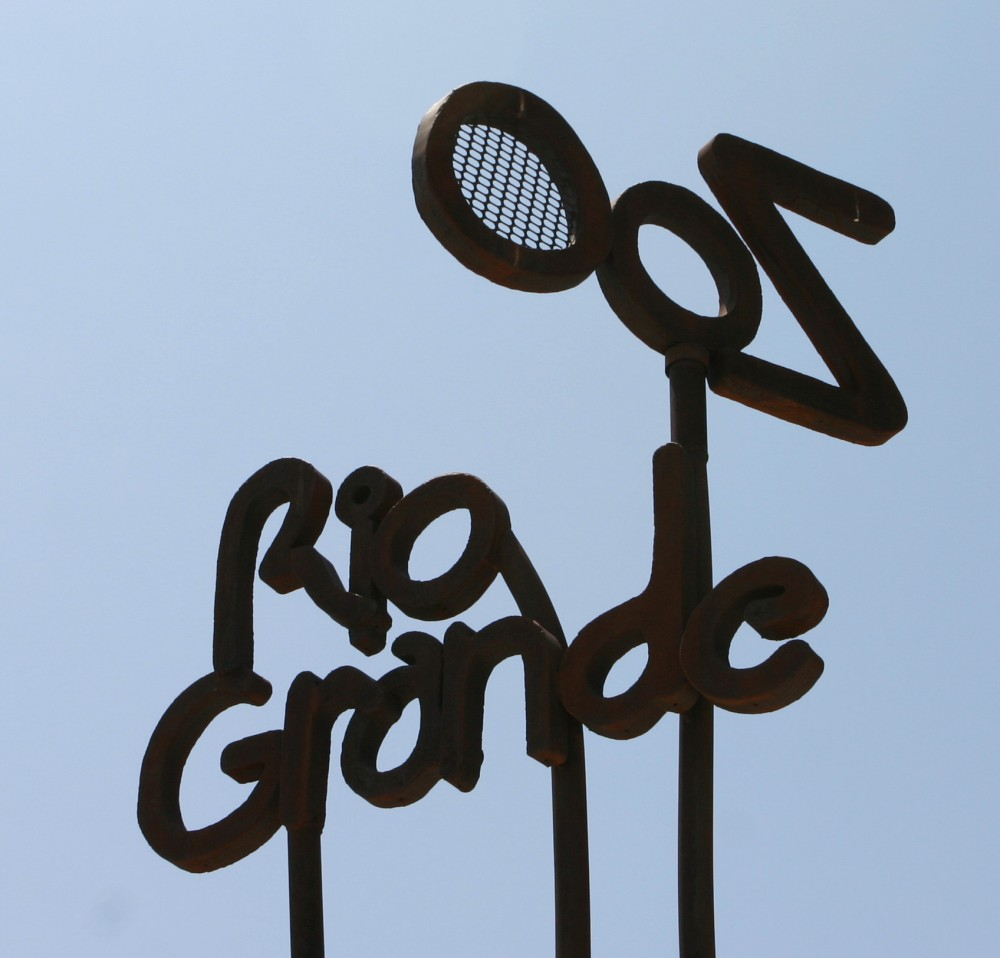 3-D metal sign in front of the Rio Grande Zoo.